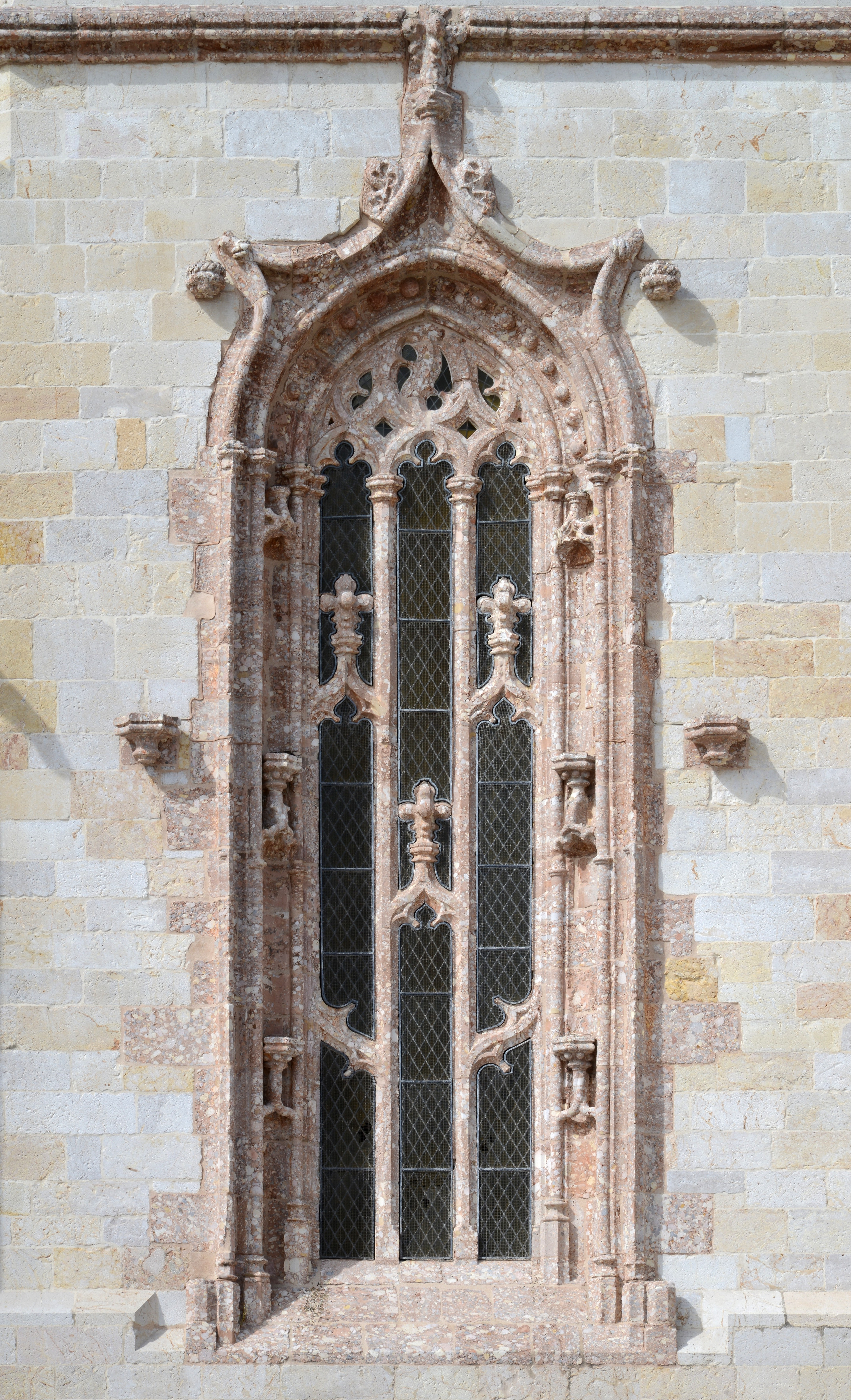 Church of the Monastery of Jesus, Setúbal, Portugal (detail of window)